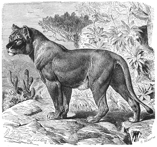 Senegal-Leeuwin (Felis leo senegalensis). Currently: Panthera leo senegalensis